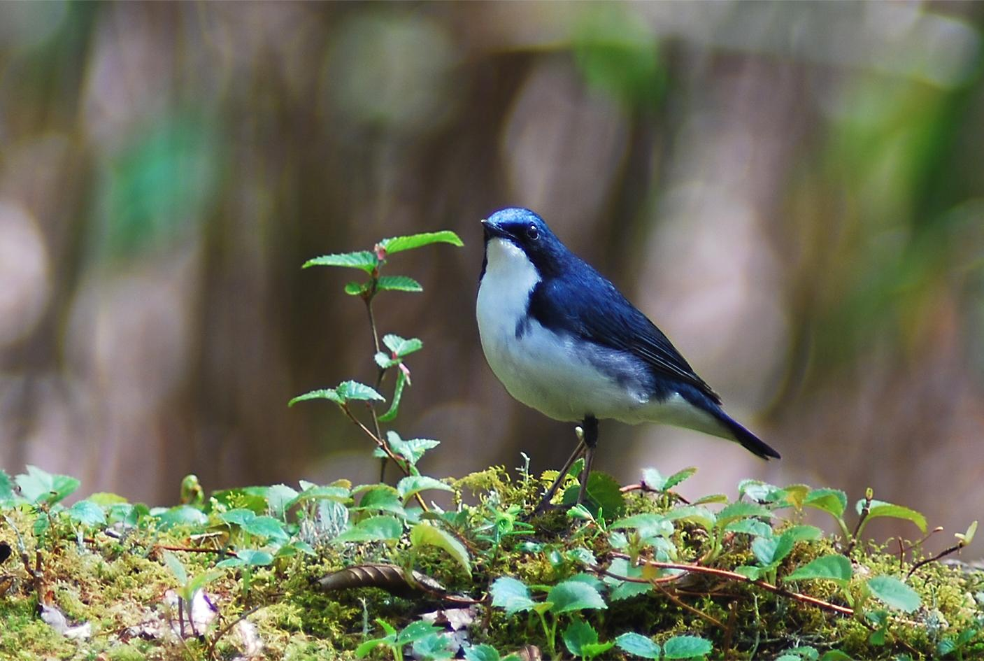 It is the one of the Japan's three biggest songbirds.